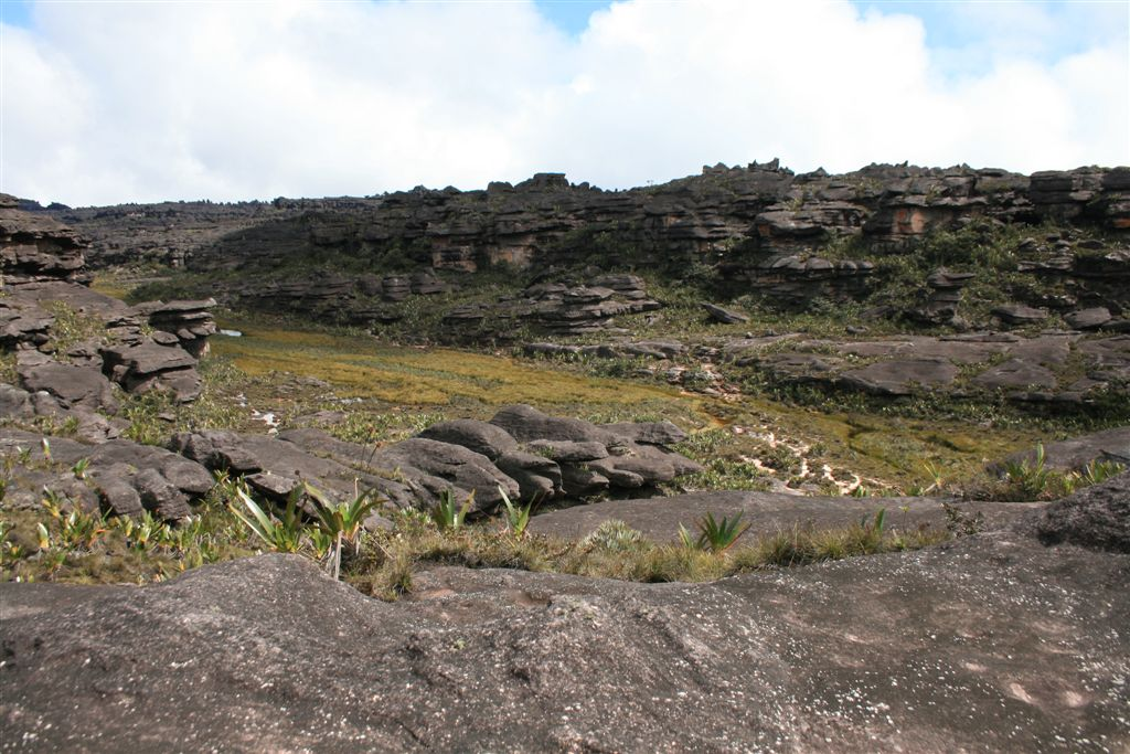 Mount Roraima plateau, Venezuela